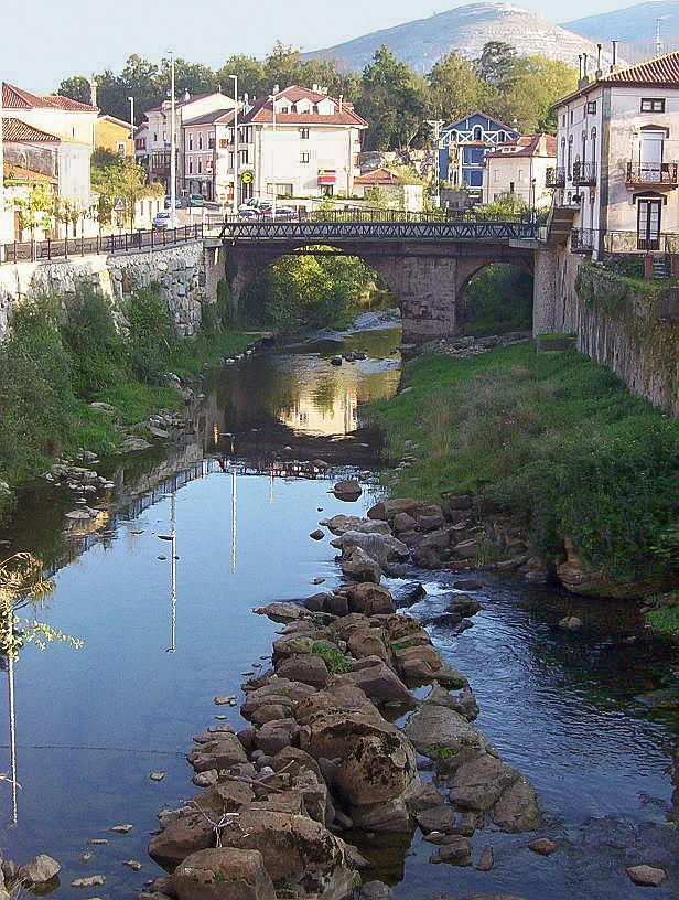 River Miera in the town of La Cavada (Cantabria, Spain)